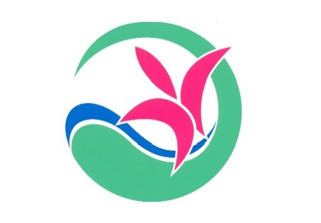 Flag of Sakuho Nagano